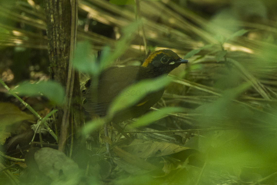 Rufous-capped Antthrush - Intervales - Brazil_S4E0280